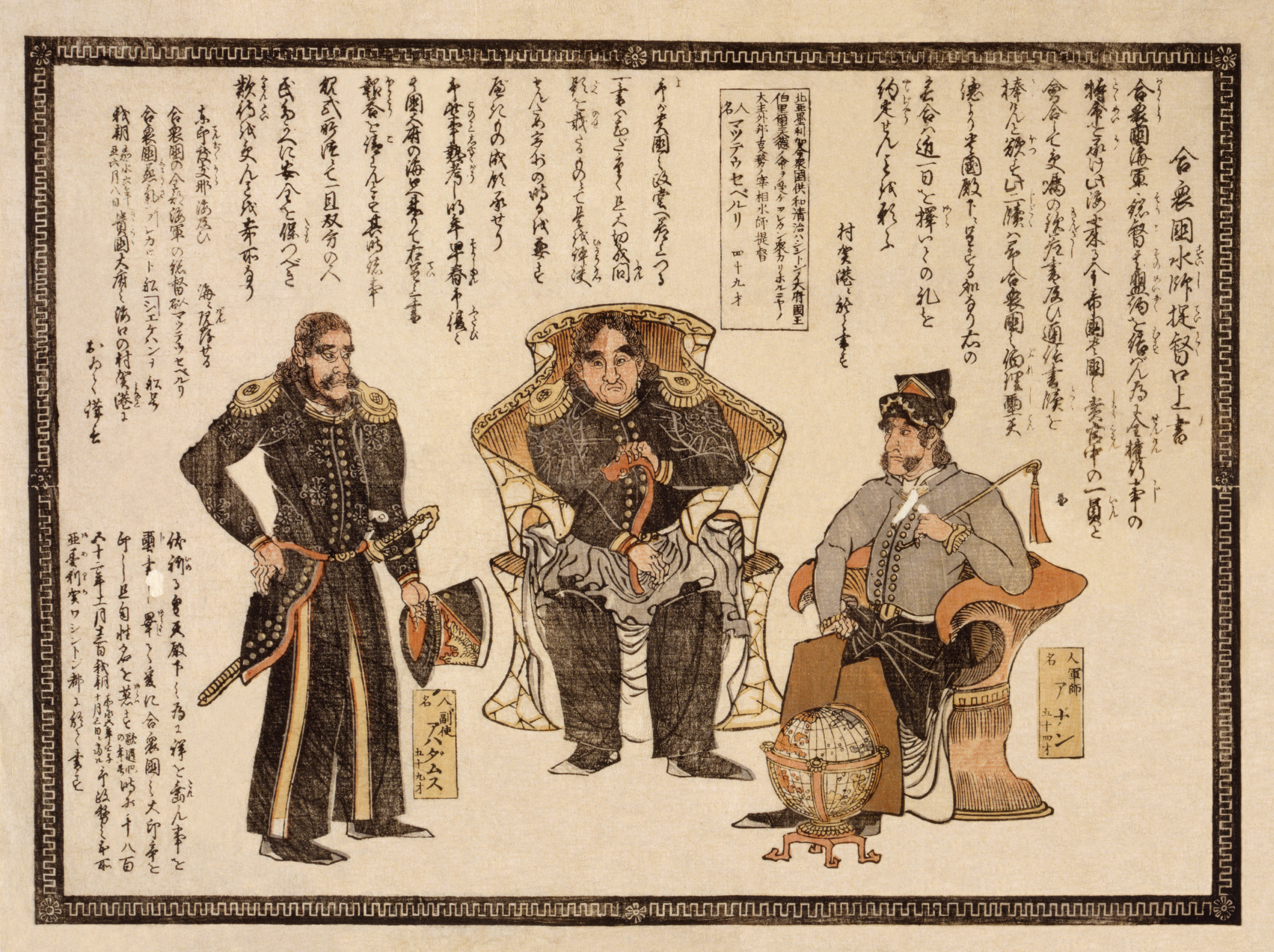 Gasshukoku suishi teitoku kōjōgaki (Oral statement by the American Navy admiral). A Japanese print showing three men, believed to be Commander Anan, age 54; Perry, age 49; and Captain Henry Adams, age 59, who opened up Japan to the west. The text being read may be President Fillmore's letter to Emperor of Japan. This is a somewhat extensive restoration, meant to keep focus on the artwork, instead of the damage. See also File:Gasshukoku suishi teitoku kōjōgaki (Oral statement by the American Navy admiral) minimal restoration.png.